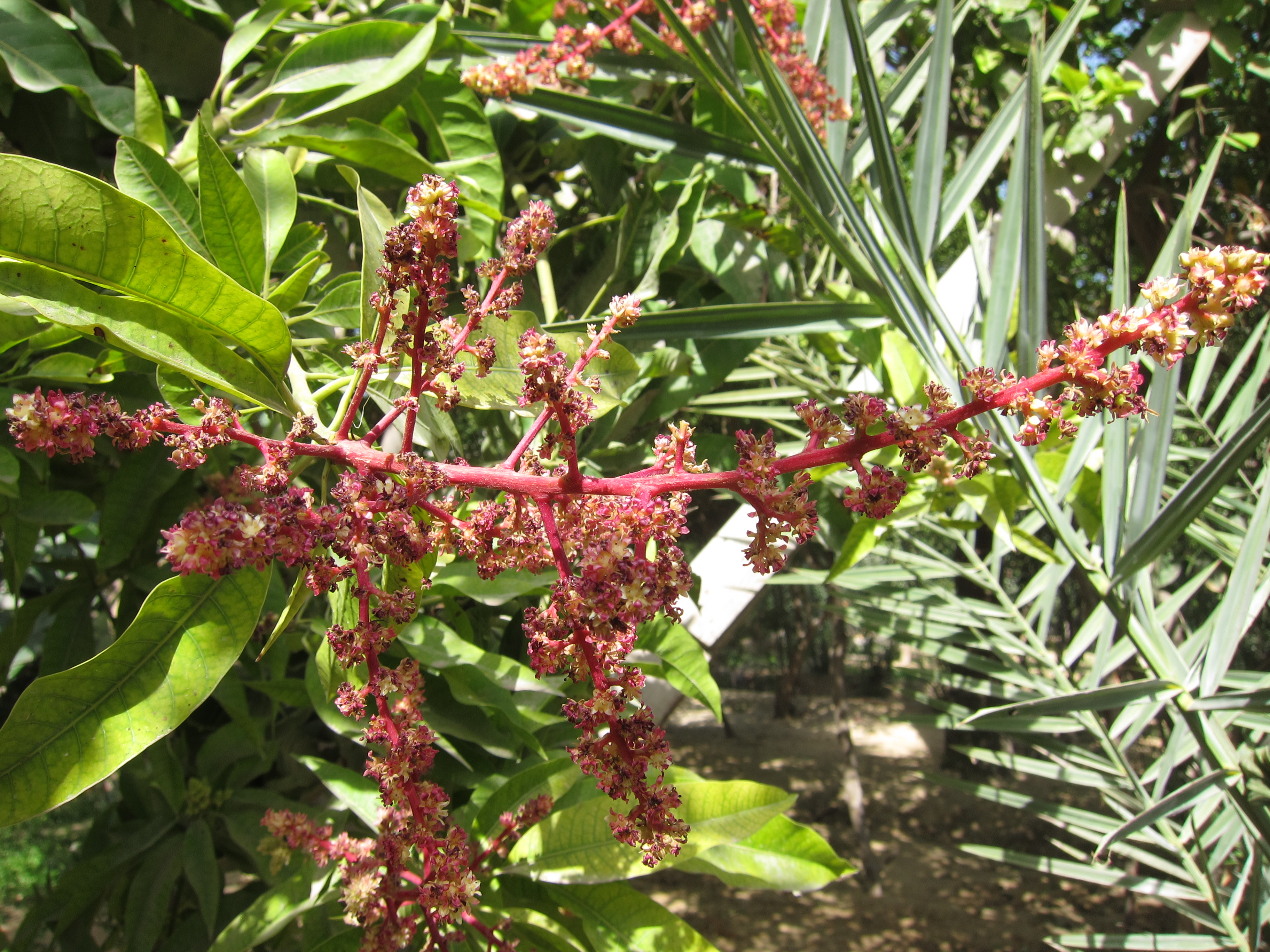 Mango മാവ് മാമ്പൂവ്